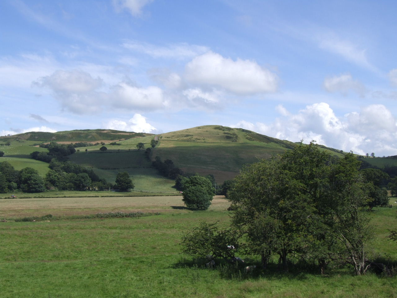 Tre-pys-llygod, a hill near Llangernyw, Conwy County, Wales.